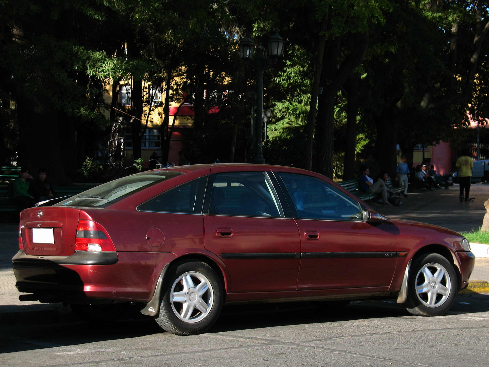 The Vectra is very common here, except the liftback version. Very rare.